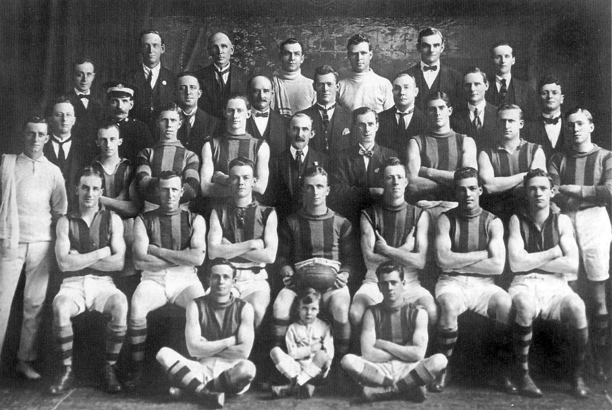 Team of Port Melbourne FC, premiers